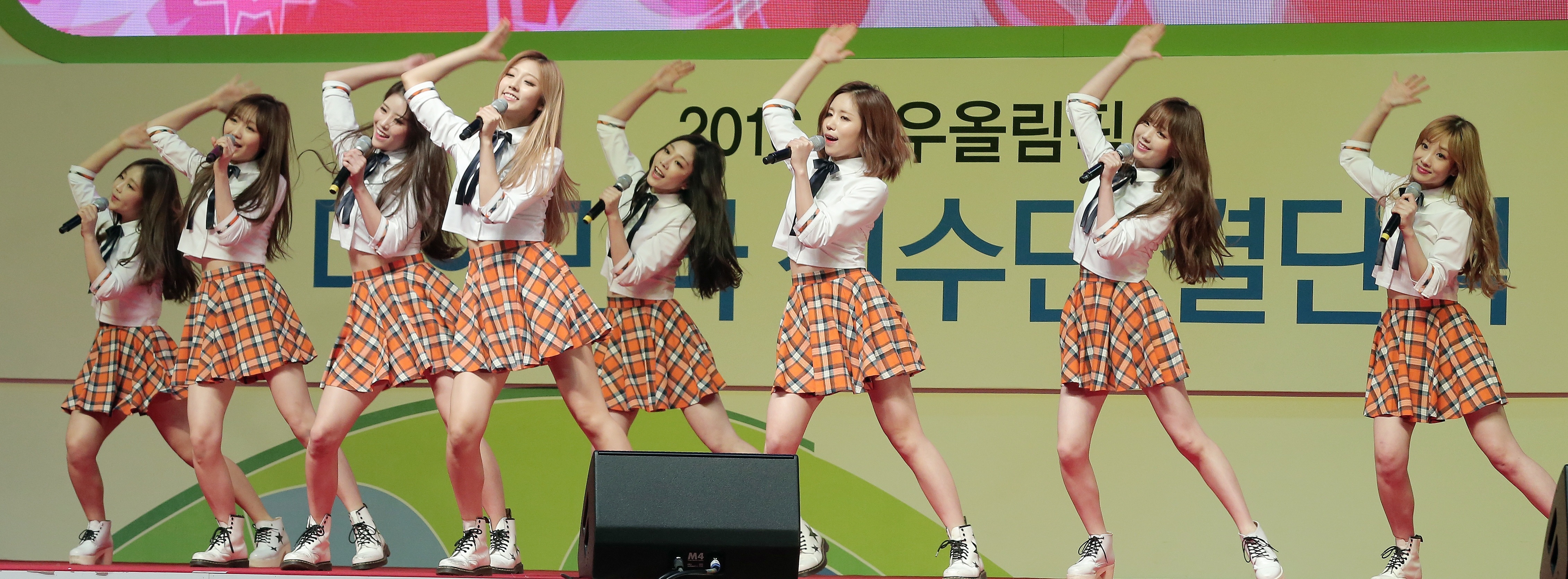 Pop group Lovelyz puts on an exciting performance, spurring Team Korea to put up a good fight at the Rio 2016 Olympic Games.